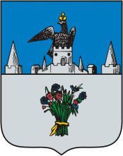 Karachev (Oryol oblast), coat of arms (1781)